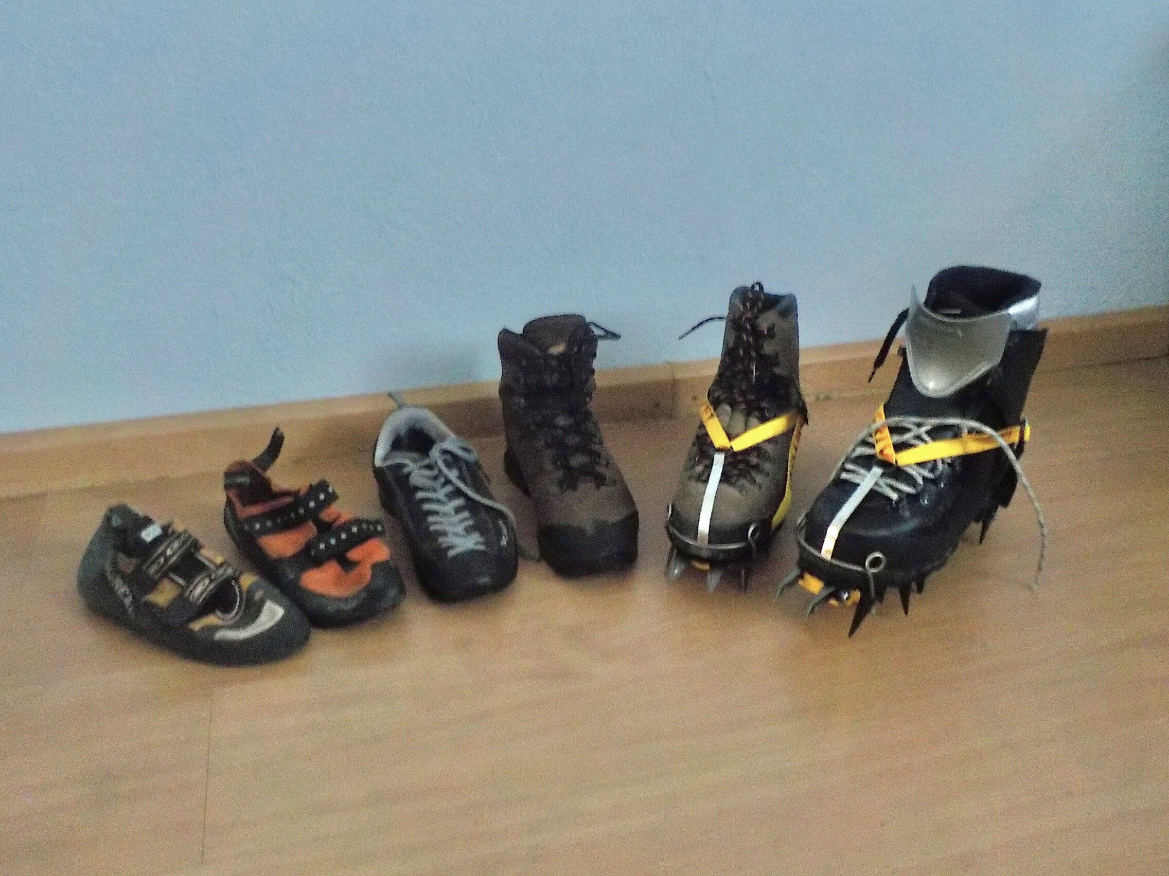 Various mountain and rock boots